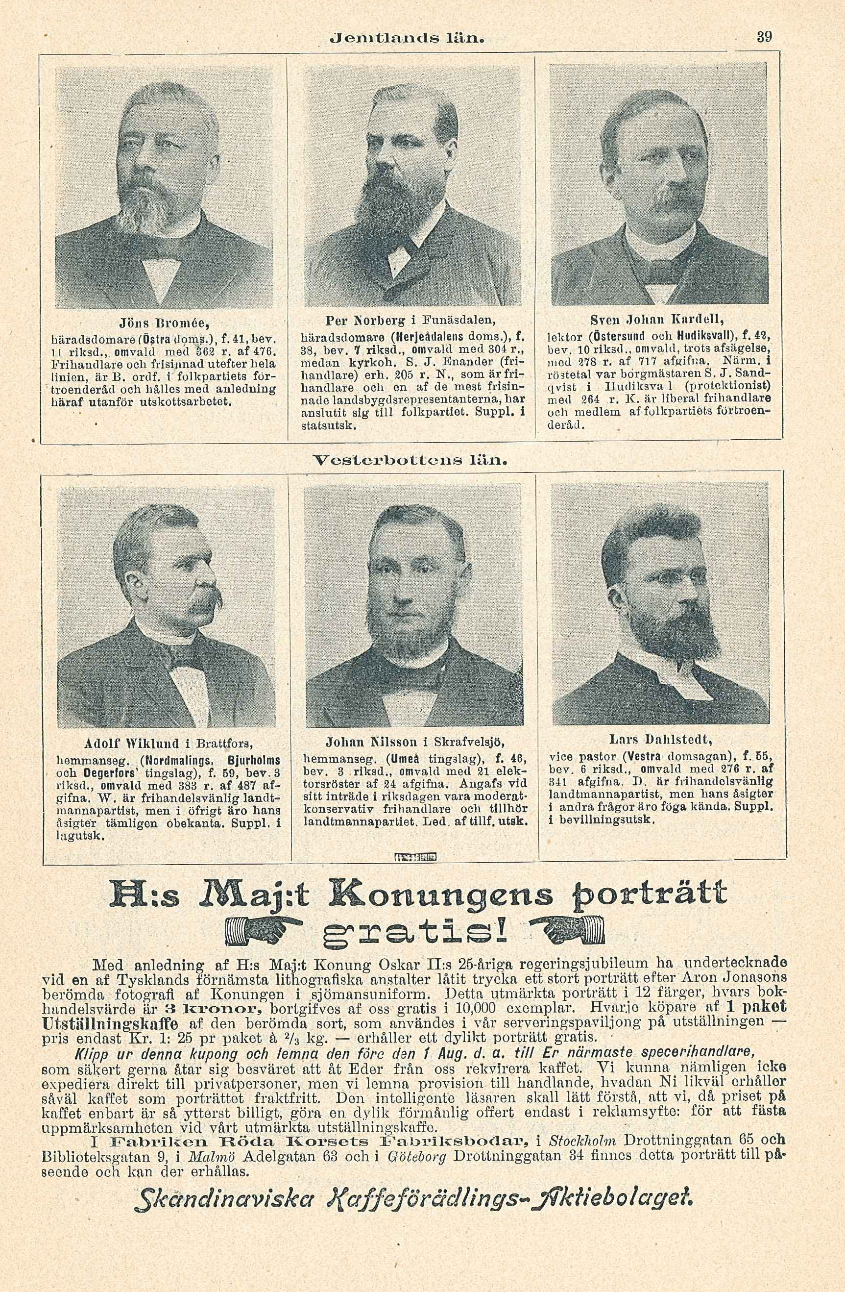 Page 39 of an album featuring portraits of all the members of the second chamber of the Swedish parliament (Sveriges riksdag) elected in 1897. This page featuring parts of the members representing the counties of Jämtland and Västerbotten.